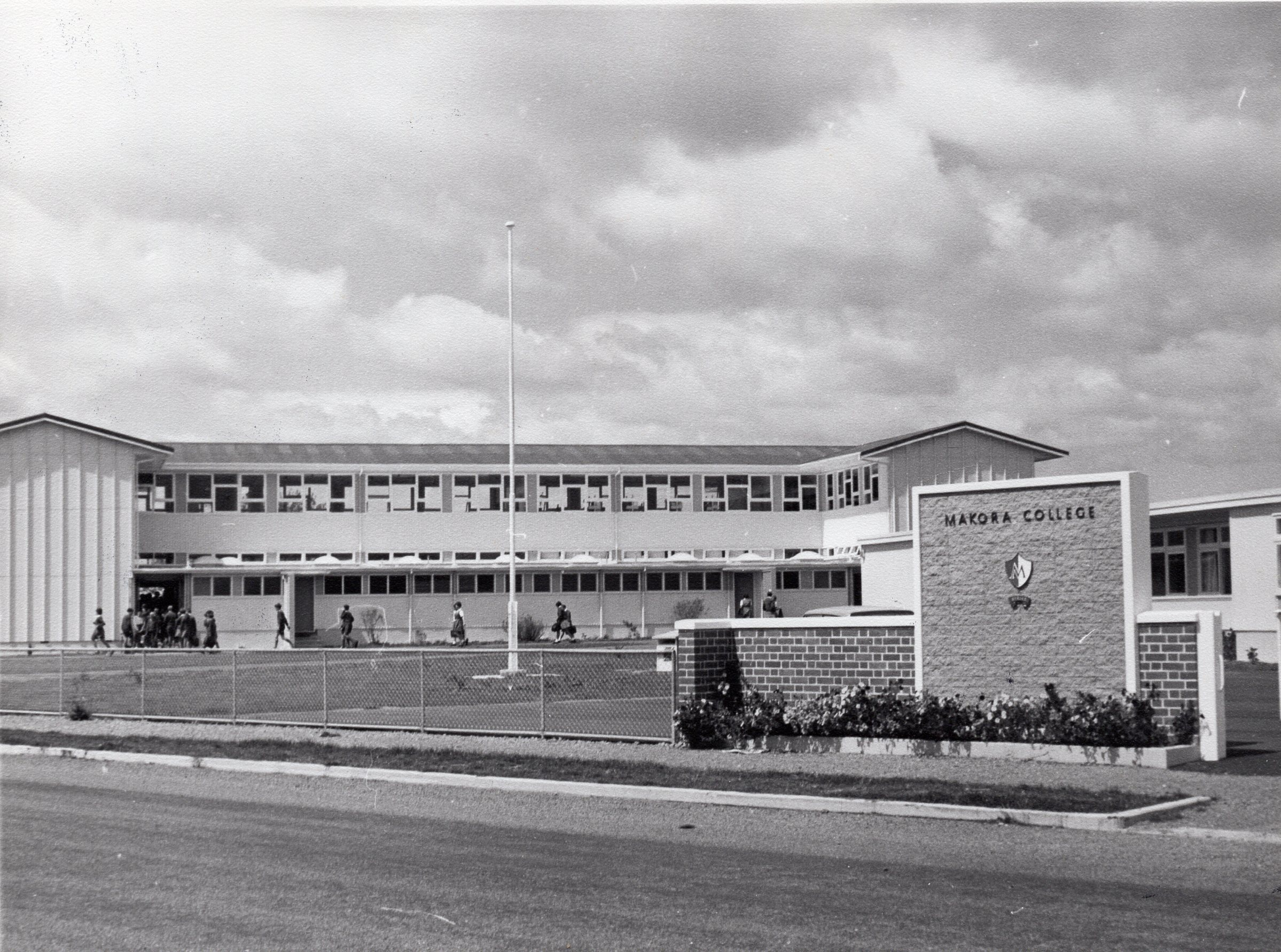 Makora College, Masterton - block G and assembly hall - exterior [black and white prints] Archives New Zealand Reference: ABKK 24414 W4358 487 / 67 GA9015 This item is from series 24414. This series is comprised of Public Works Department, Ministry of Works, Ministry of Works and Development, and Works and Development Services Corporation (New Zealand) Limited photographic records documenting construction and engineering throughout New Zealand. A wide variety of subjects are depicted, including: Historic places Architecture Roading and Bridges Mechanical and Electrical Engineering Civil Engineering Housing Town Planning Power Engineering Water and Soil